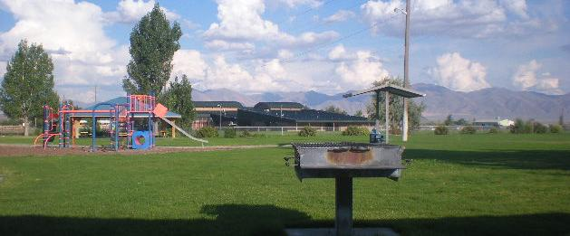 The park in crescent valley. Shot includes veiw of playground, Barbecue, bench, and the Crescent Valley Elementary School. (CVES)